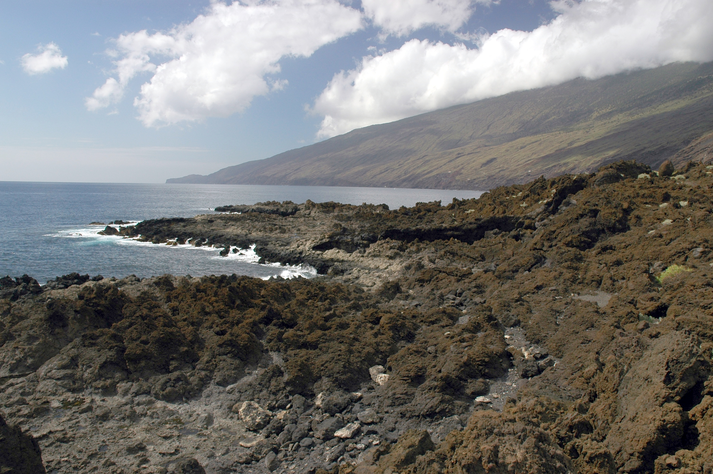 Tacoron Creek, near of La Restinga. El Pinar de El Hierro. El Hierro, Spain.